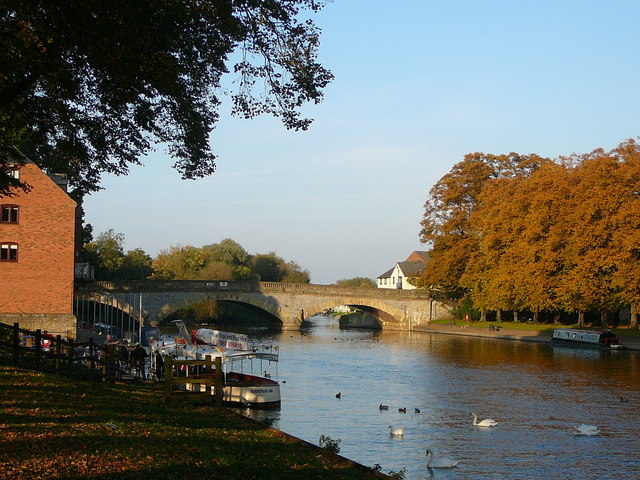 The River Avon and Workman Bridge, Evesham